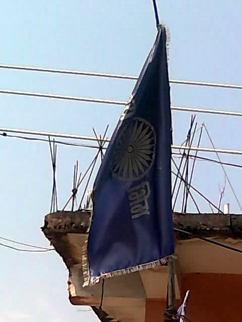 A blue flag with dhamma wheel and 'Bhim' name representing Dalit-Buddhist culture at Indira Nager, Chinawal village, India